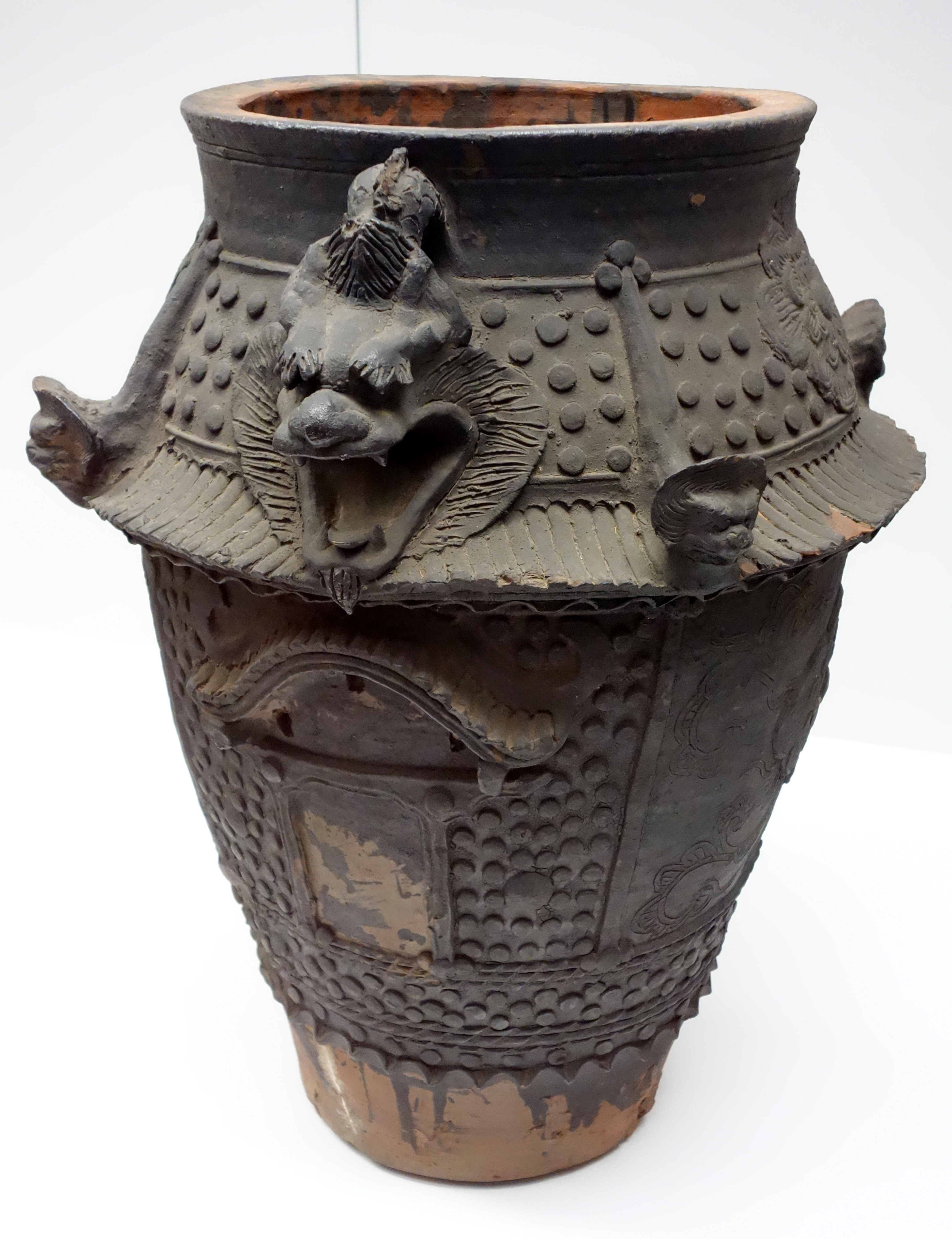 Exhibit in the Tokyo National Museum, Tokyo, Japan. This artwork is old enough so that it is in the public domain.